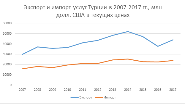 Turkish imports and exports of services